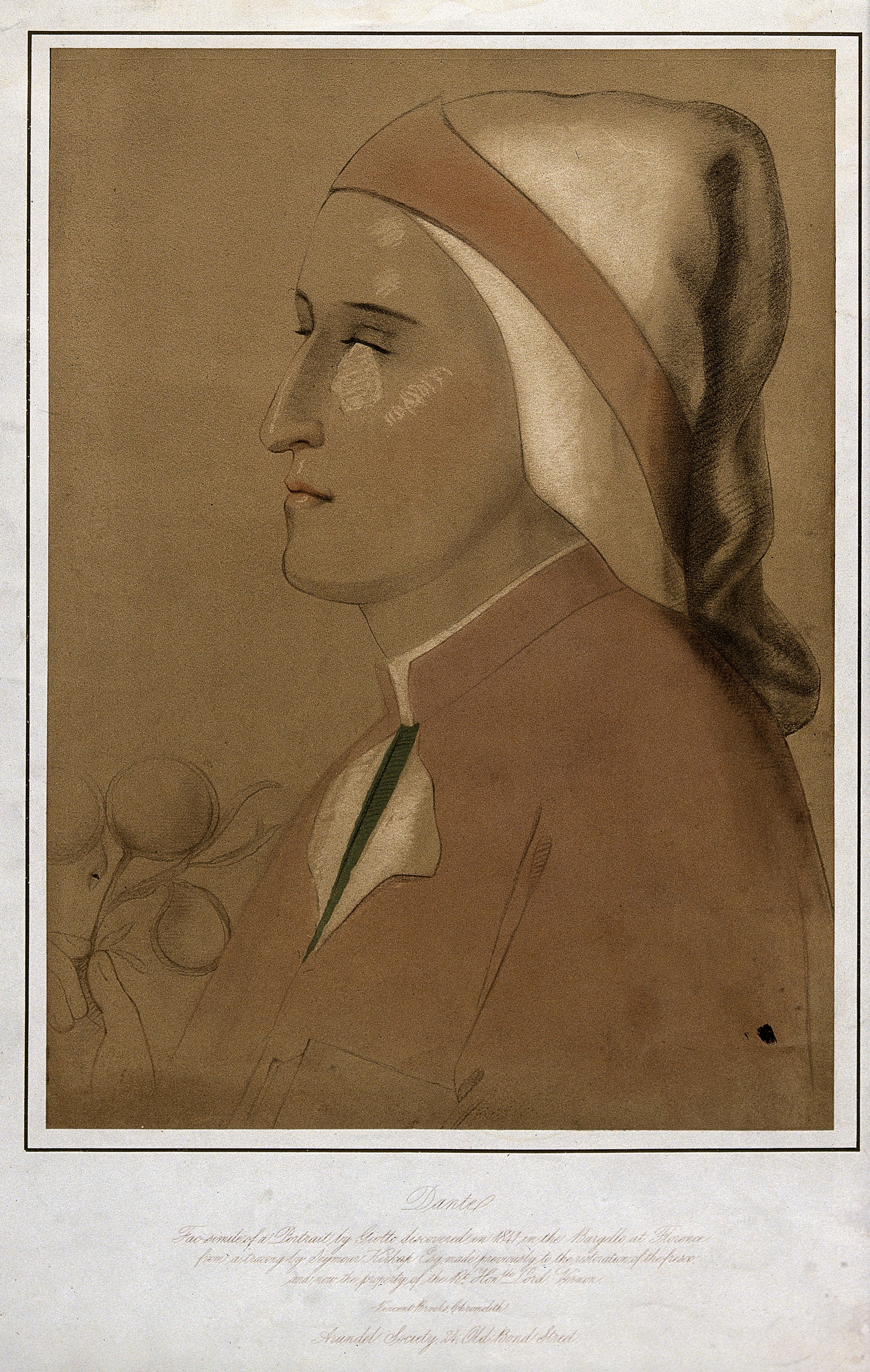 Dante Alighieri, Italian poet and author of 'The Divine Comedy'. Iconographic Collections Keywords: Seymour Stocker Kirkup; Ambrogio Bondone Giotto; Dante Alighieri